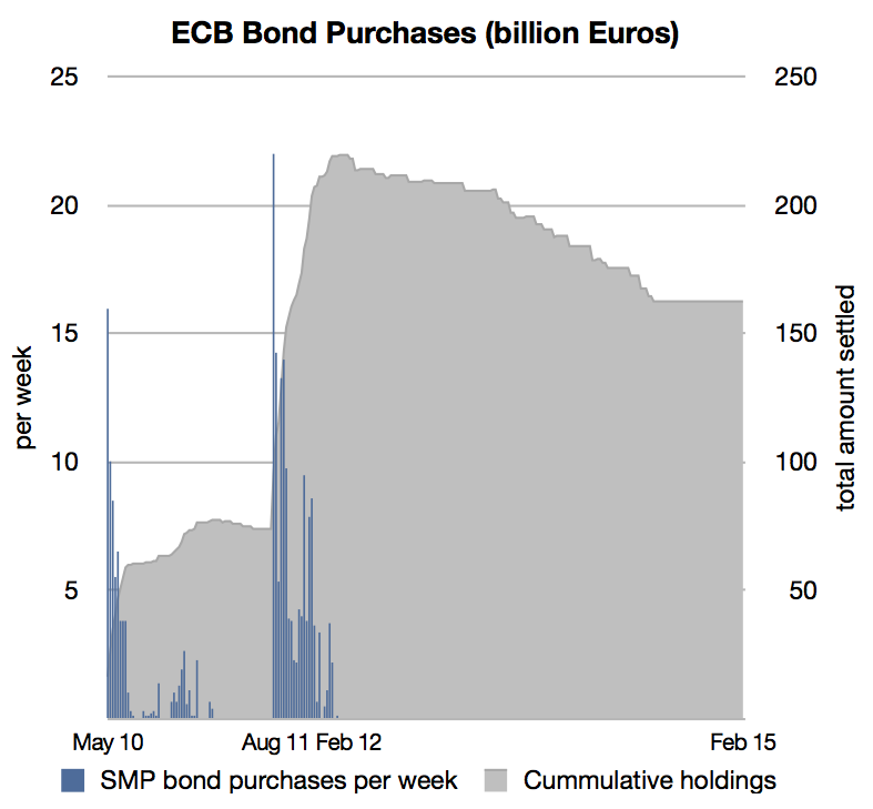 ECB Securities Markets Program (SMP) weekly bond purchases and total amount settled (May 2010 - February 2012)